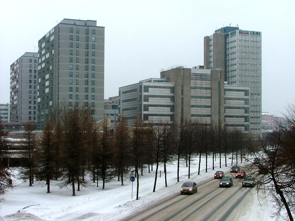 A wintertime view on Merihaka in central Helsinki, Finland from a near-by pedestrian bridge.